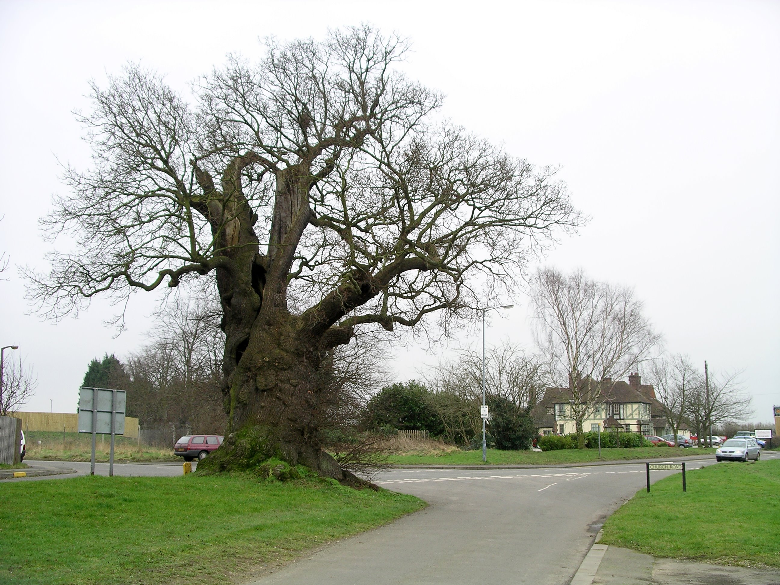 Photo taken by me on 18 February 2007 of the old oak tree in Baginton, Warwickshire, near Coventry, England. The Oak public house is in the background.